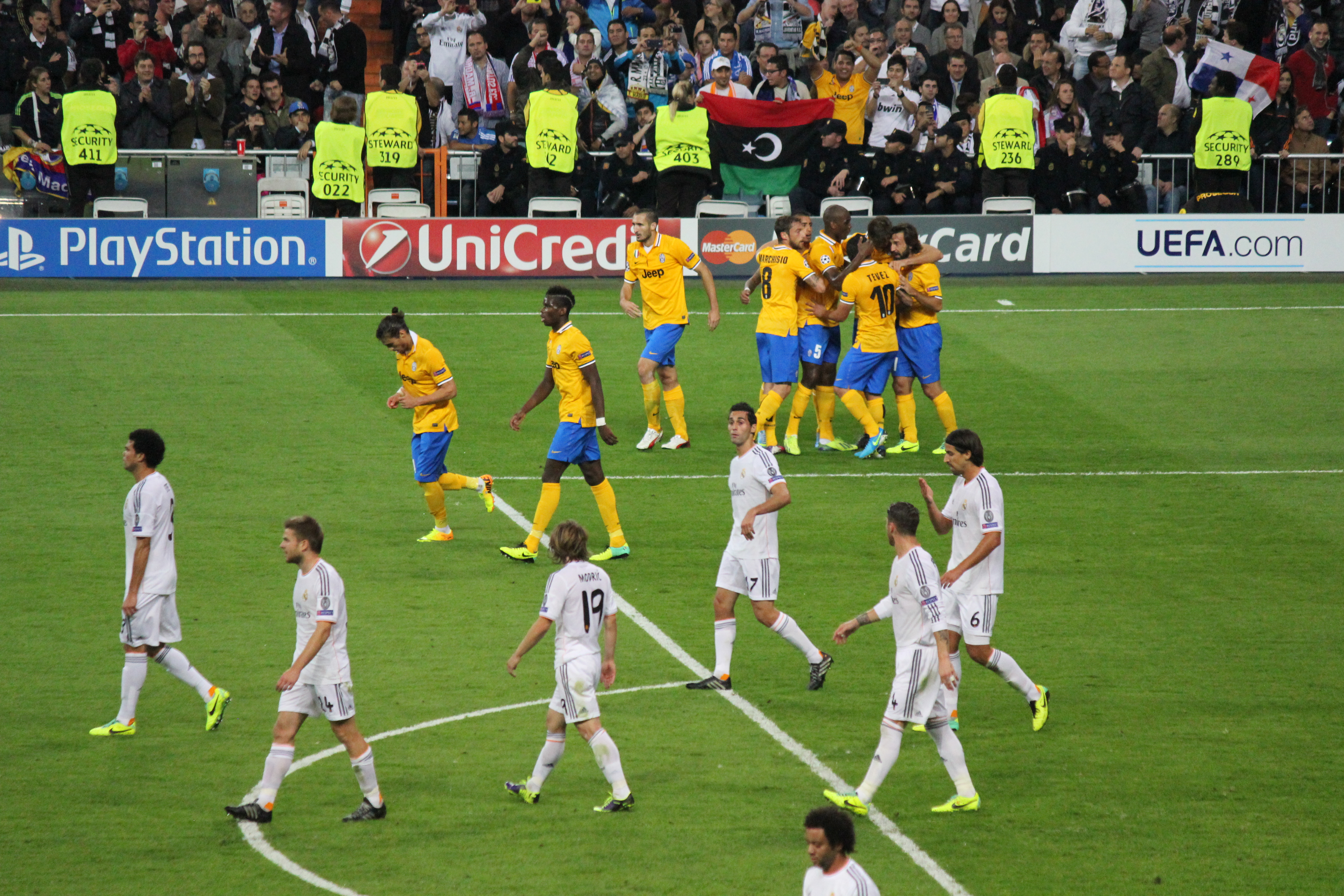 Real Madrid vs Juventus, 24 October 2013 Champions League